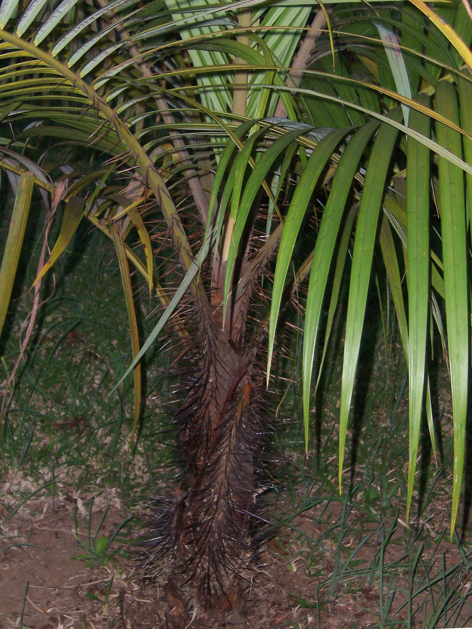 young barbel palm (Acanthophoenix rubra) in a garden of Réunion island